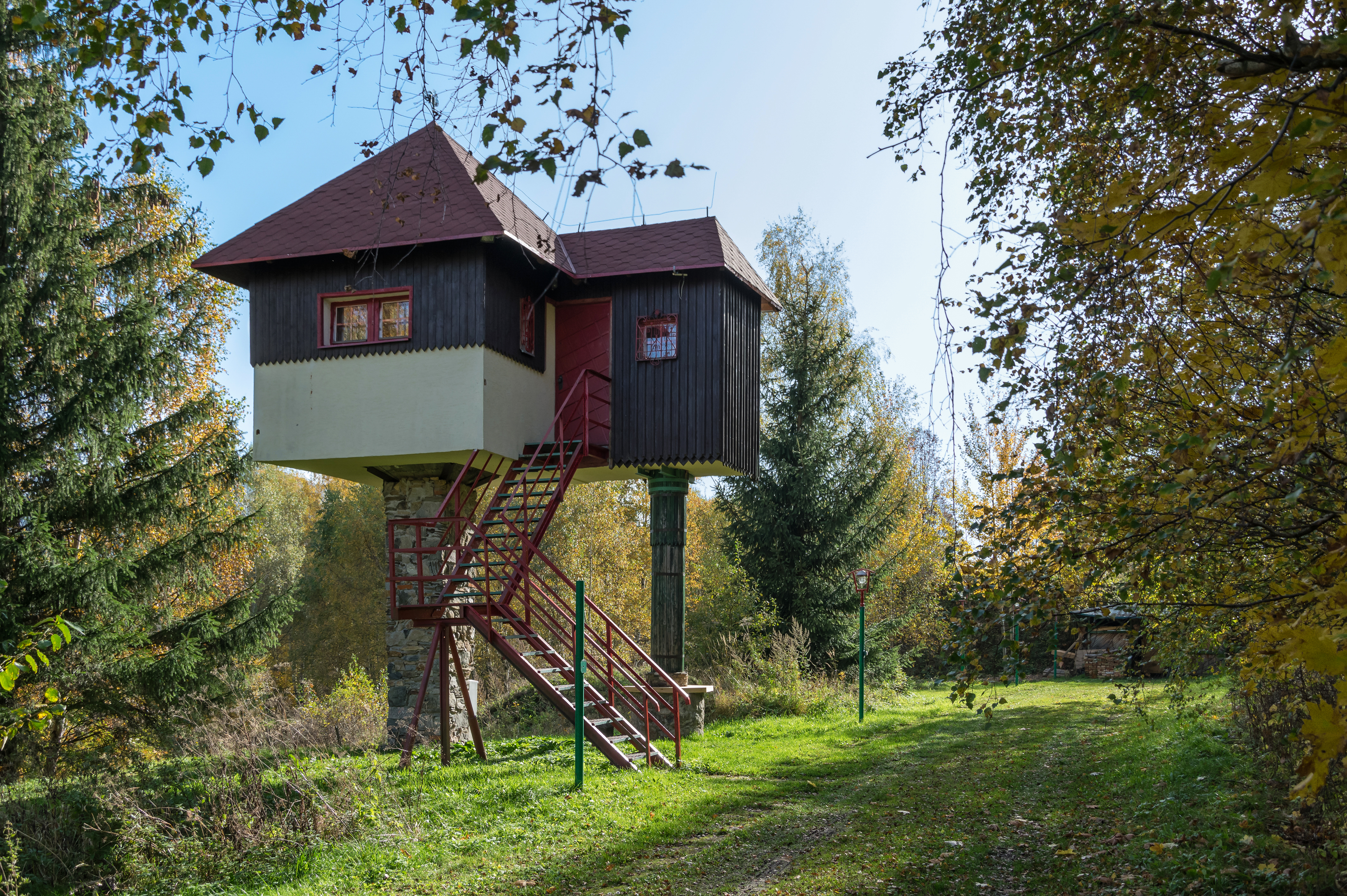 Domek Pustelnia in Stara Morawa, former observation post adapted for tourists" rooms